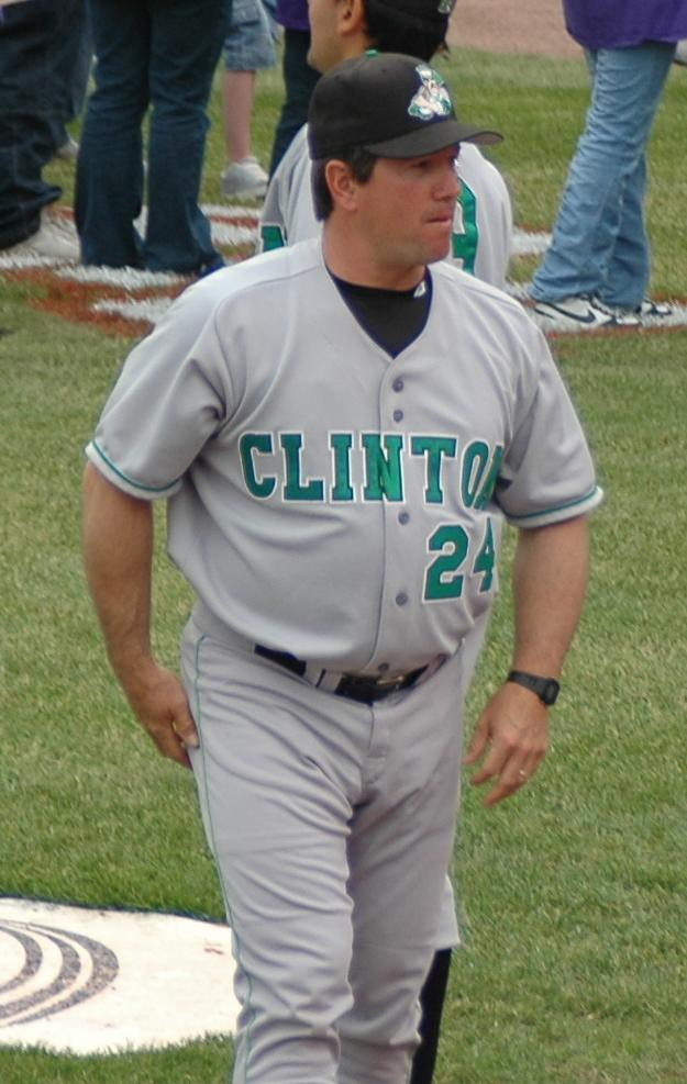 Brian Dayett; Clinton @ Lansing 06-02-2005